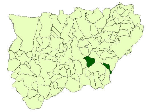 Situation of the municipality of Peal de Becerro (Jaén, Spain).